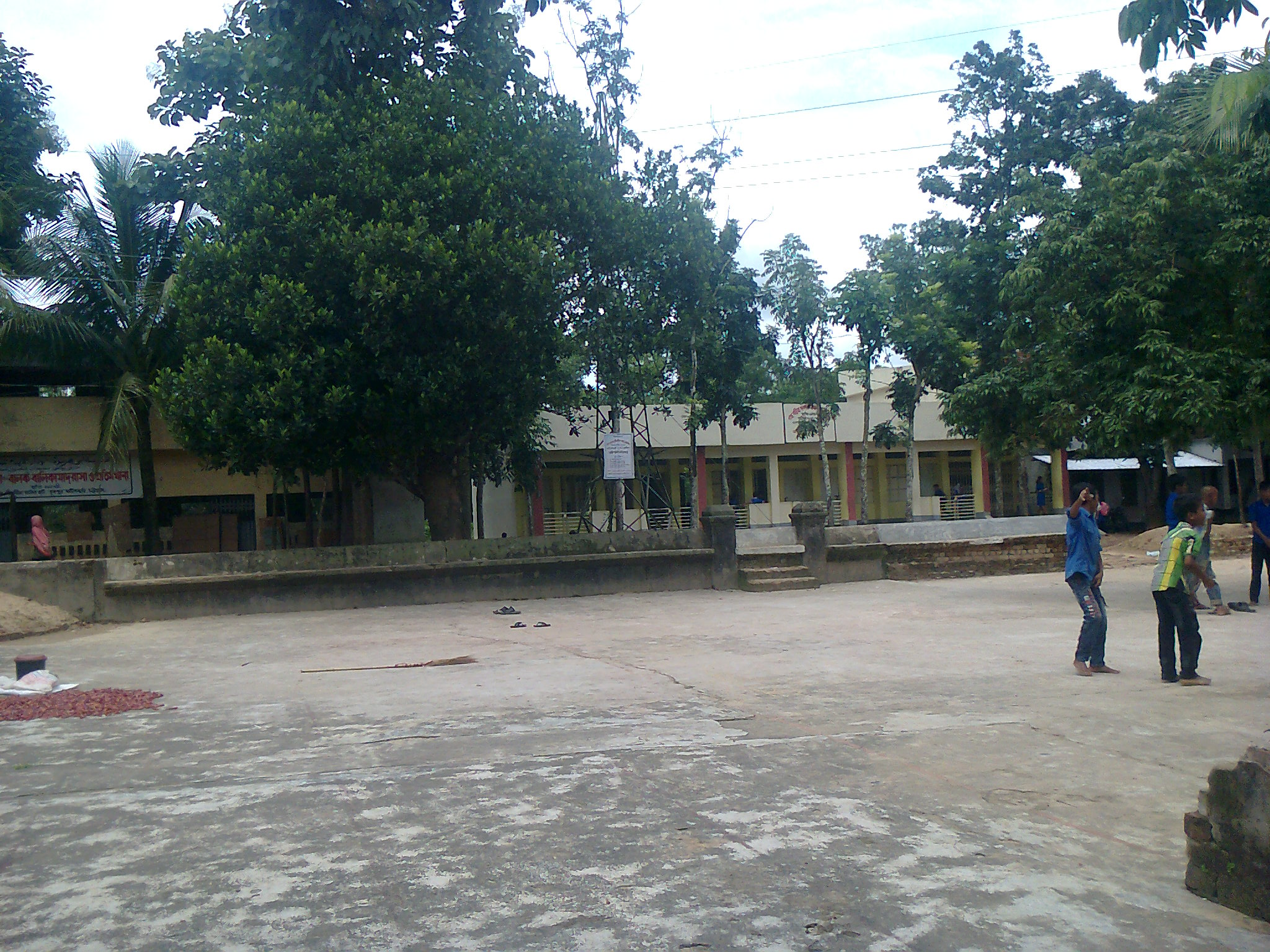 Mirerkhil Eid Congregation field.